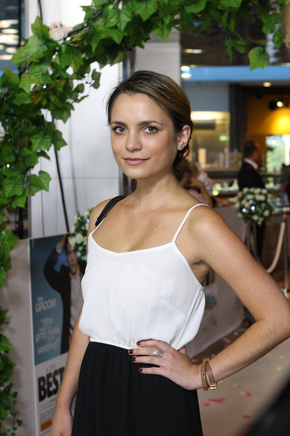 Jessica Tovey at A Few Best Men movie premiere In Sydney, Australia, 2012